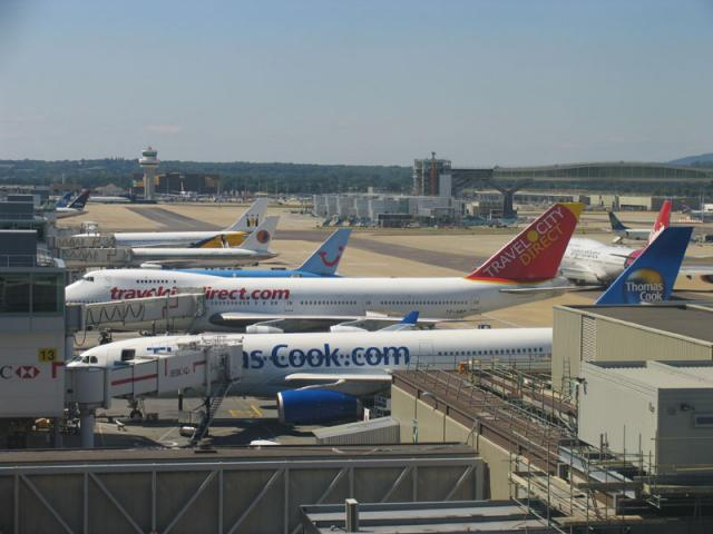 South Terminal, London Gatwick Airport. Taken from Norfolk House in the South Terminal building, overlooking the loading bays.